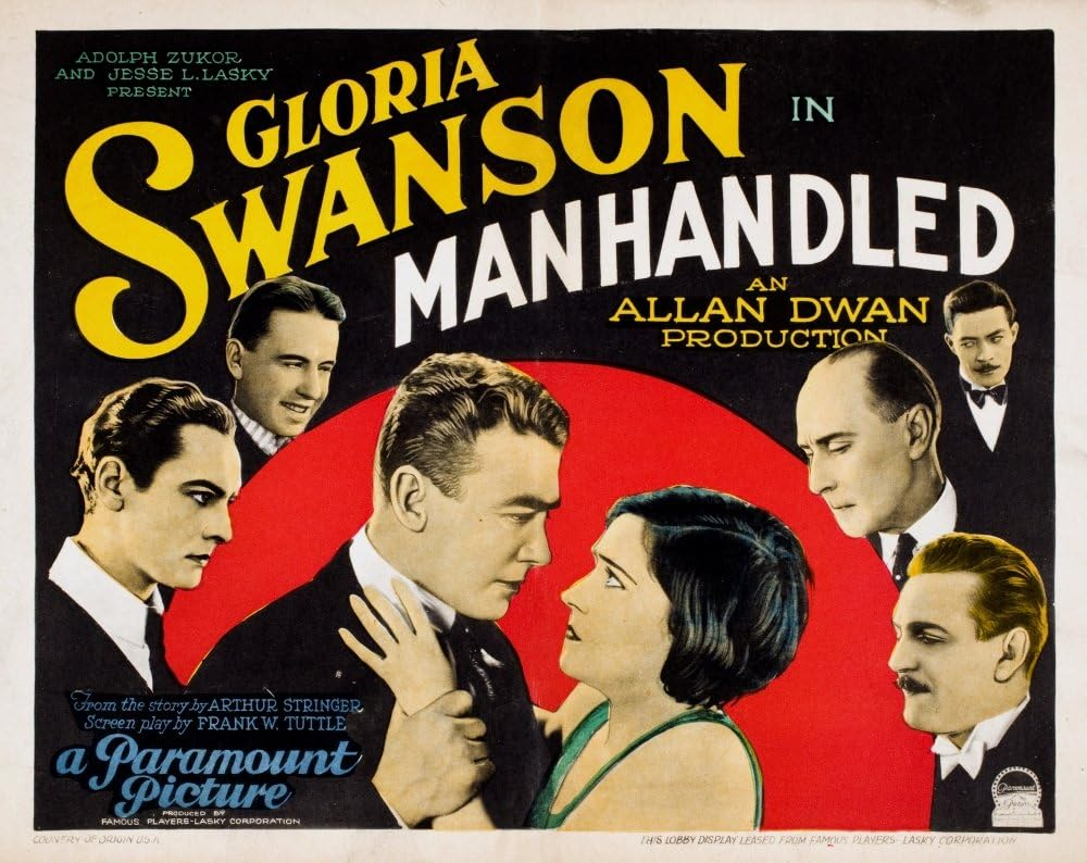 Lobby card for the American drama film Manhandled (1924). There are no copyright marks on the item. At lower left is Country of origin USA. At lower right is This lobby display leased from Paramount Famous Players Lasky Corp.